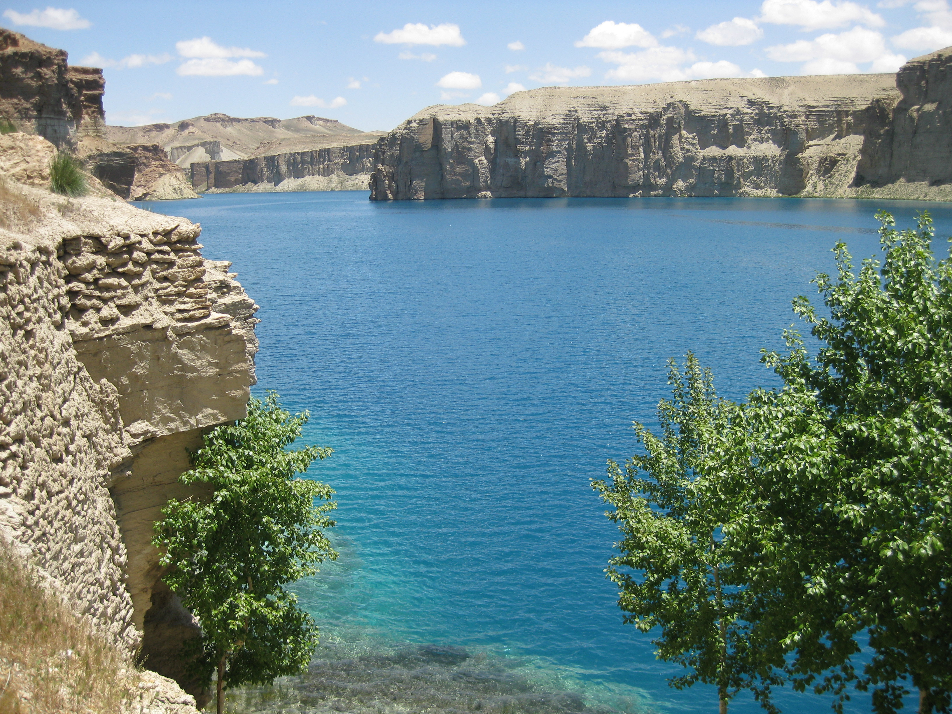 On June 18th, Ambassador Eikenberry joined Governor Sarobi, Second Vice President Karim Khalili, Director General of the National Environmental Protection Agency Mostapha Zaher, and Bamyan provincial leadership to celebrate Band-e-Amir National Park. Long known among Afghans as a place of great natural beauty and cool respite during the summer, the park opened in April for tourists.